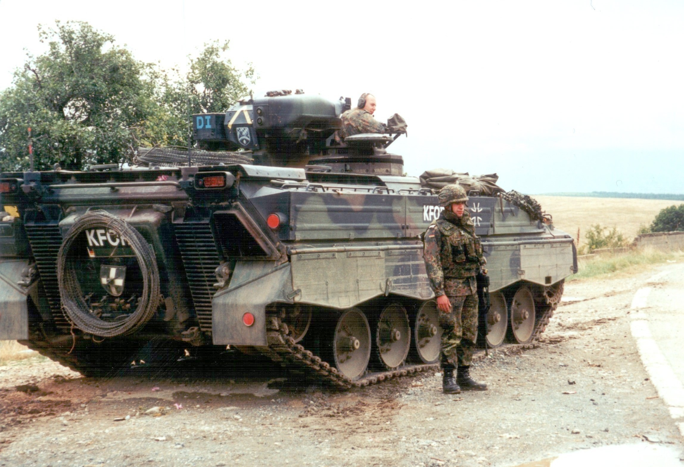 Photo of German KFOR armoured vehicle taken by Nick Macdonald in Kosovo in 1999.